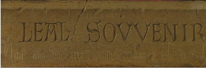 Detail from Portrait of a Man ('Léal Souvenir')